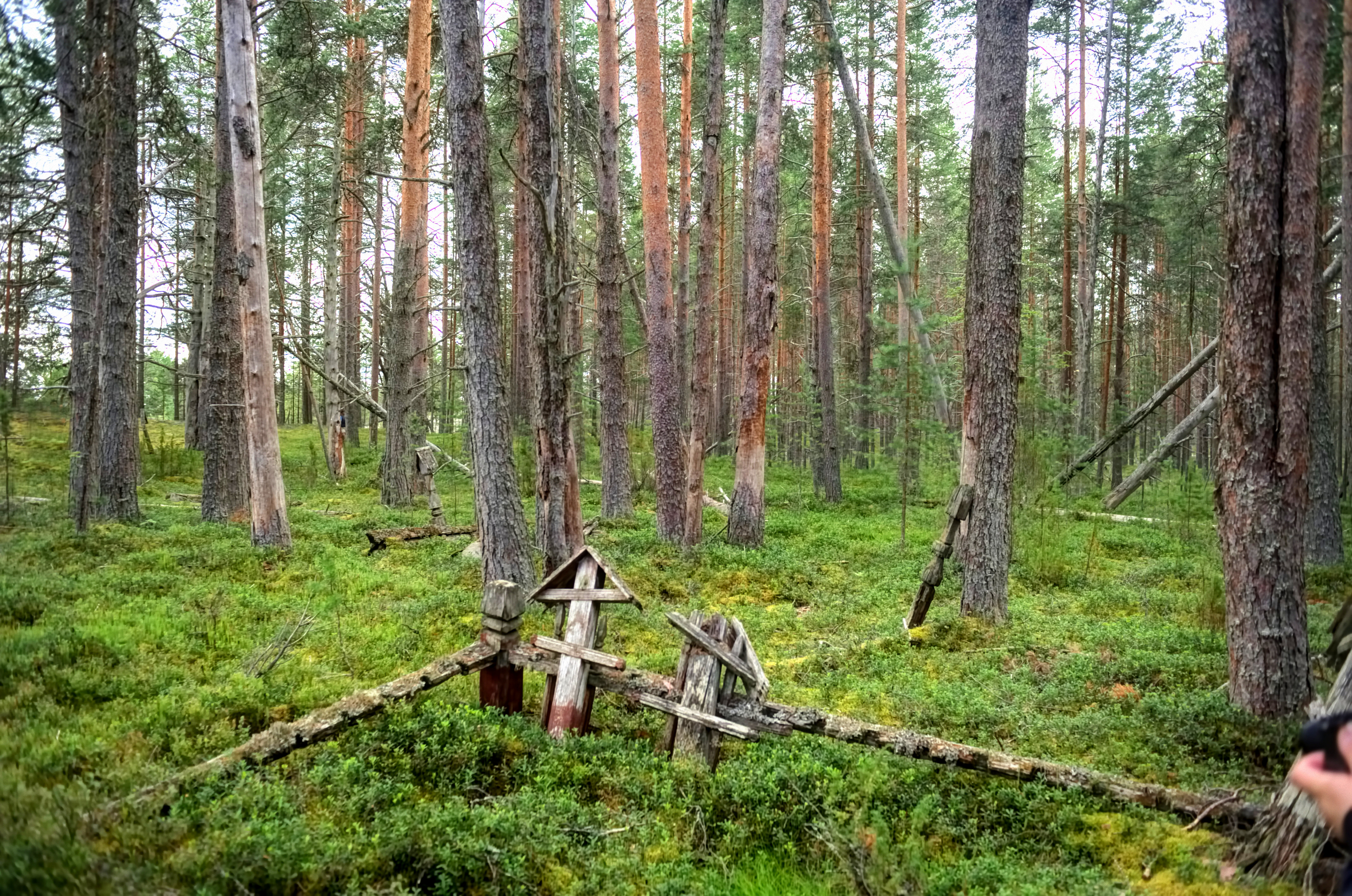 Suopassalmi July 2016